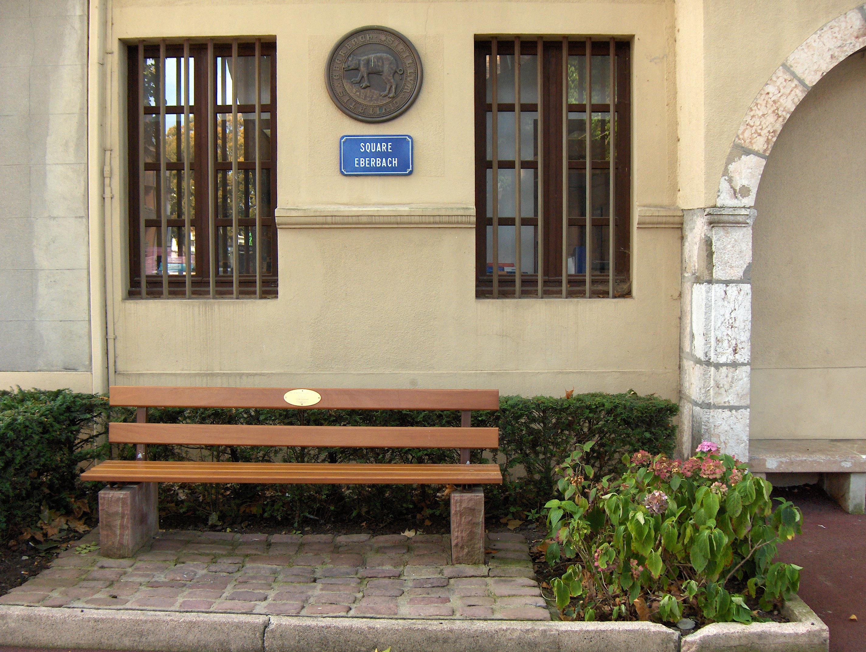 « Square Eberbach ». Town twinning commemorative park and bench between Thonon-les-Bains and Eberbach (Baden) located in Thonon-les-Bains.